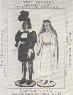 1897 theatre poster from the original production of The Mountebanks.